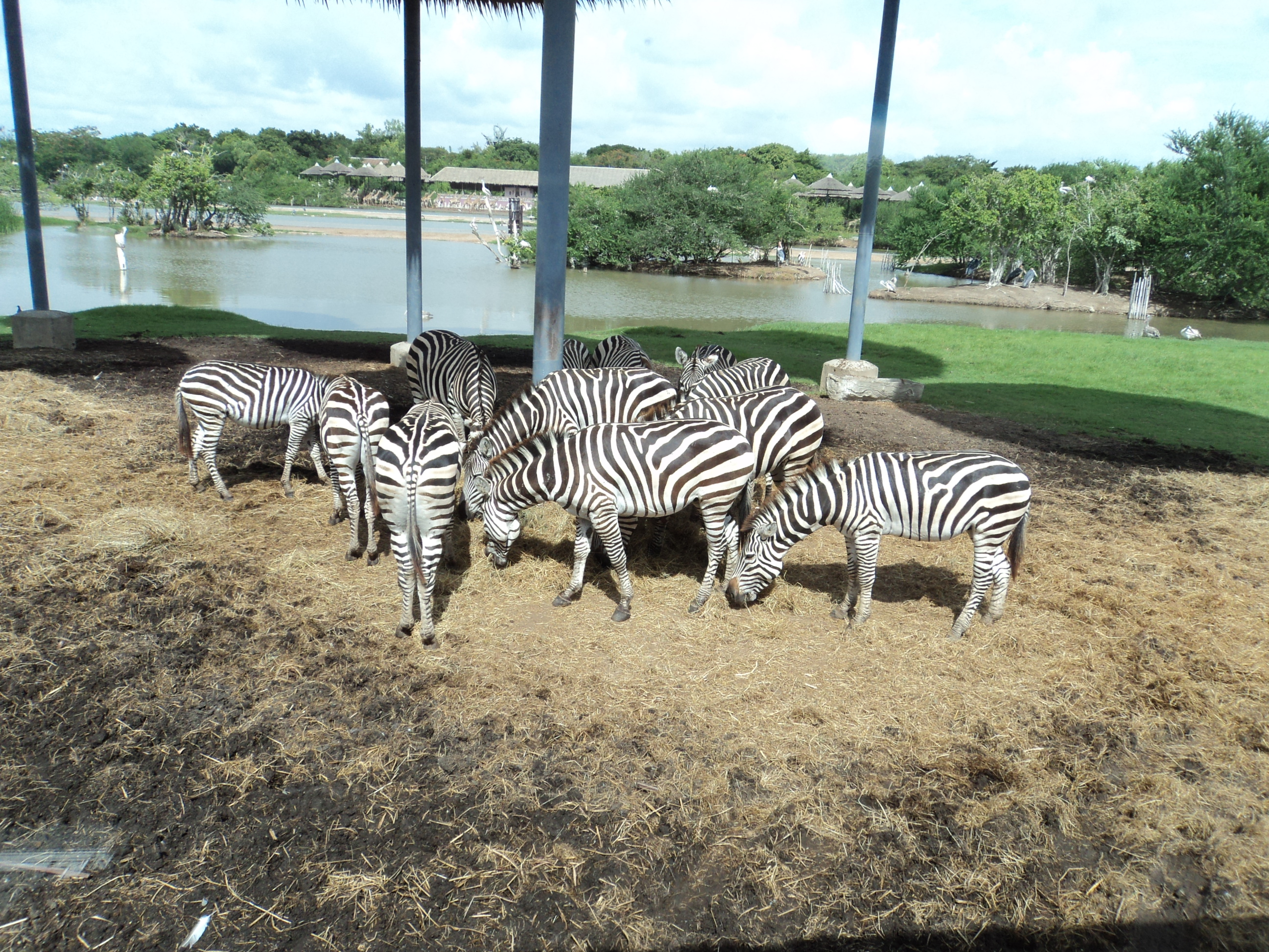 safari world bangkok